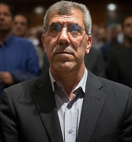 Mahmud Fotuhi Firuzabad in his introduction as Chancellor of Sharif University